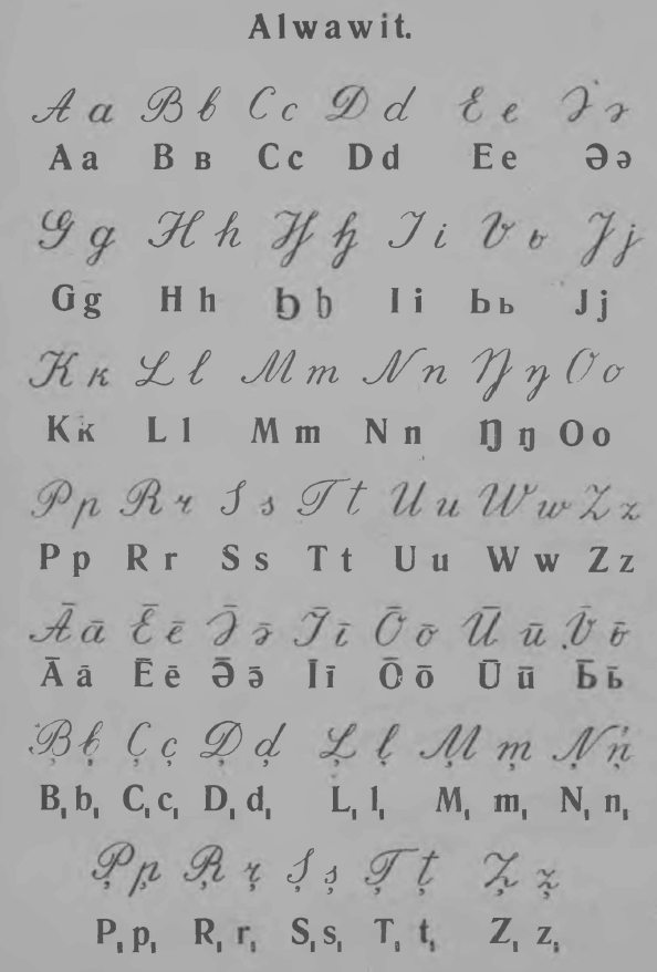 Nenets latin alphabet of 1931